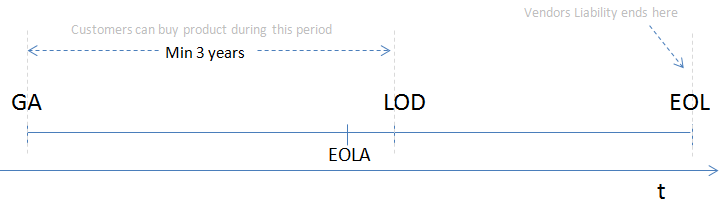 Various Milestones in Product Life Cycle